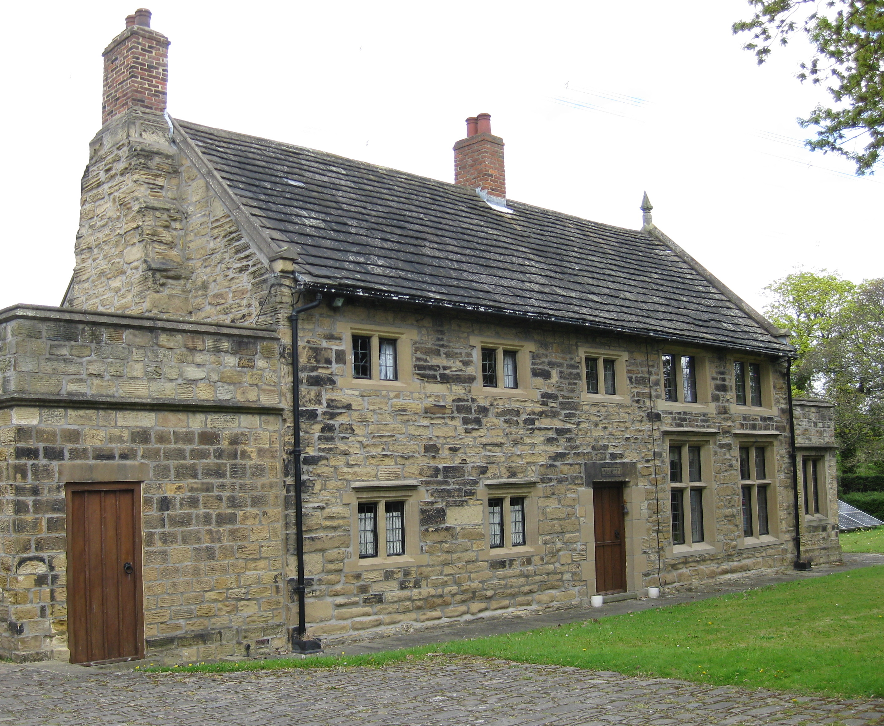 Old Pinder Green School, Watergate, Methley, LS26. Also known as "Fatty Cake" School House. 1637 Grade II listed. Sandstone with slate roof.